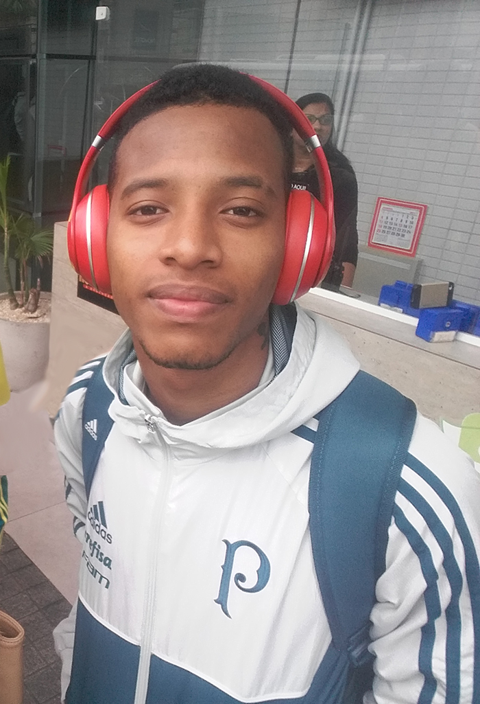 Brazilian football player Danilo Neves "Tchê Tchê", in June 2017. Português do Brasil: Jogador de futebol Danilo Neves "Tchê Tchê", em Junho de 2017.